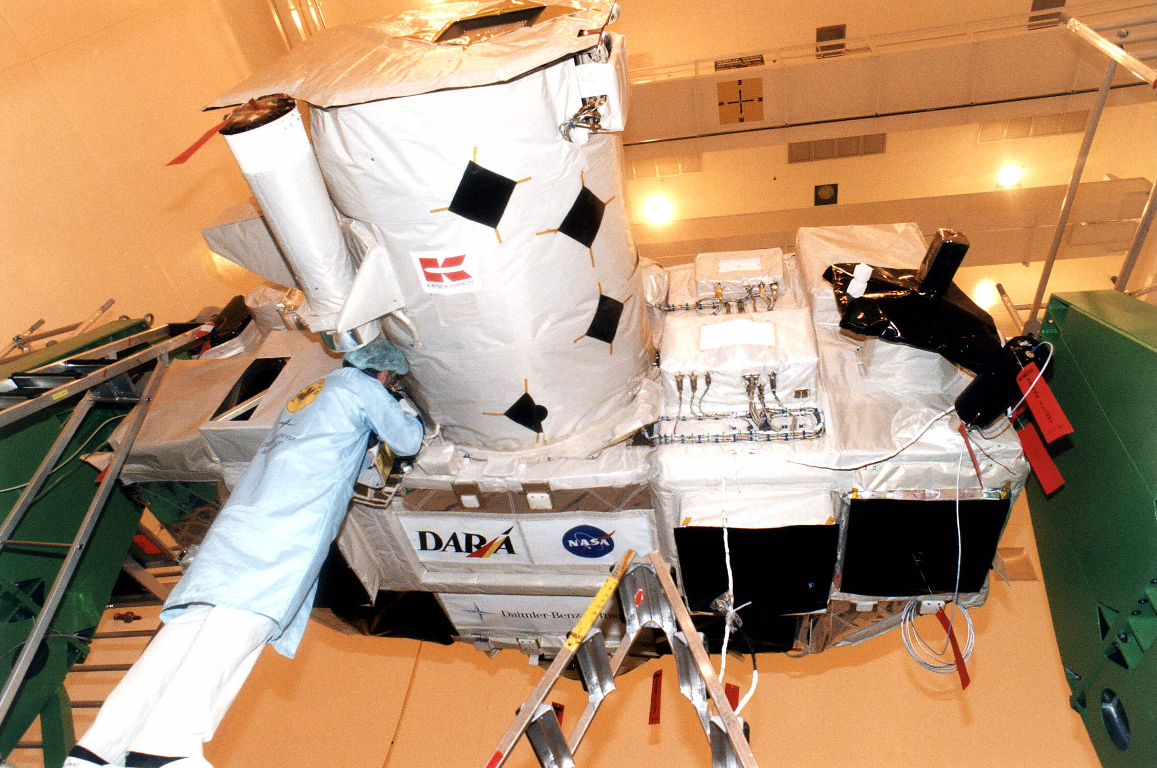 In the Multi-Payload Processing Facility, the Orbiting and Retrievable Far and Extreme Ultraviolet Spectrograph-Shuttle Pallet Satellite (ORFEUS-SPAS) is prepared for flight for STS-80, which was launched in November 1996.